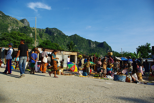 bazar